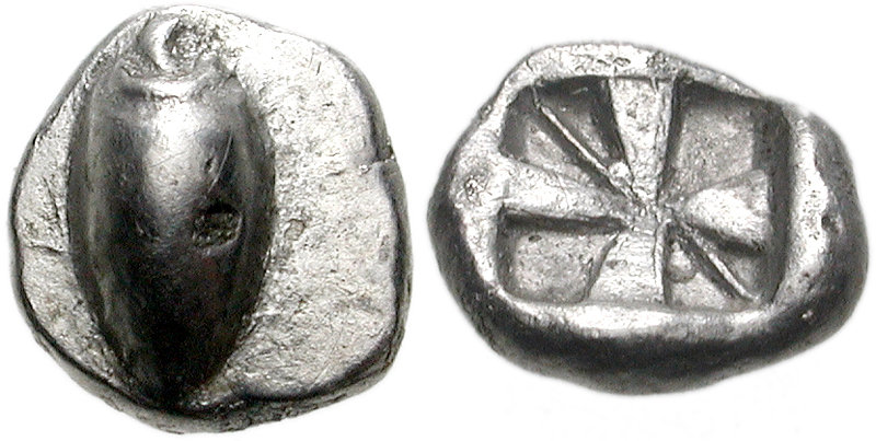 Boeotia, Orchomenos. Circa 525-500 BC. AR Obol (8mm, 0.94 g). Wheat grain; E to right (very faint) Square incuse with a recessed large triangle divided by a line, a small triangle, and a square divided by a line.